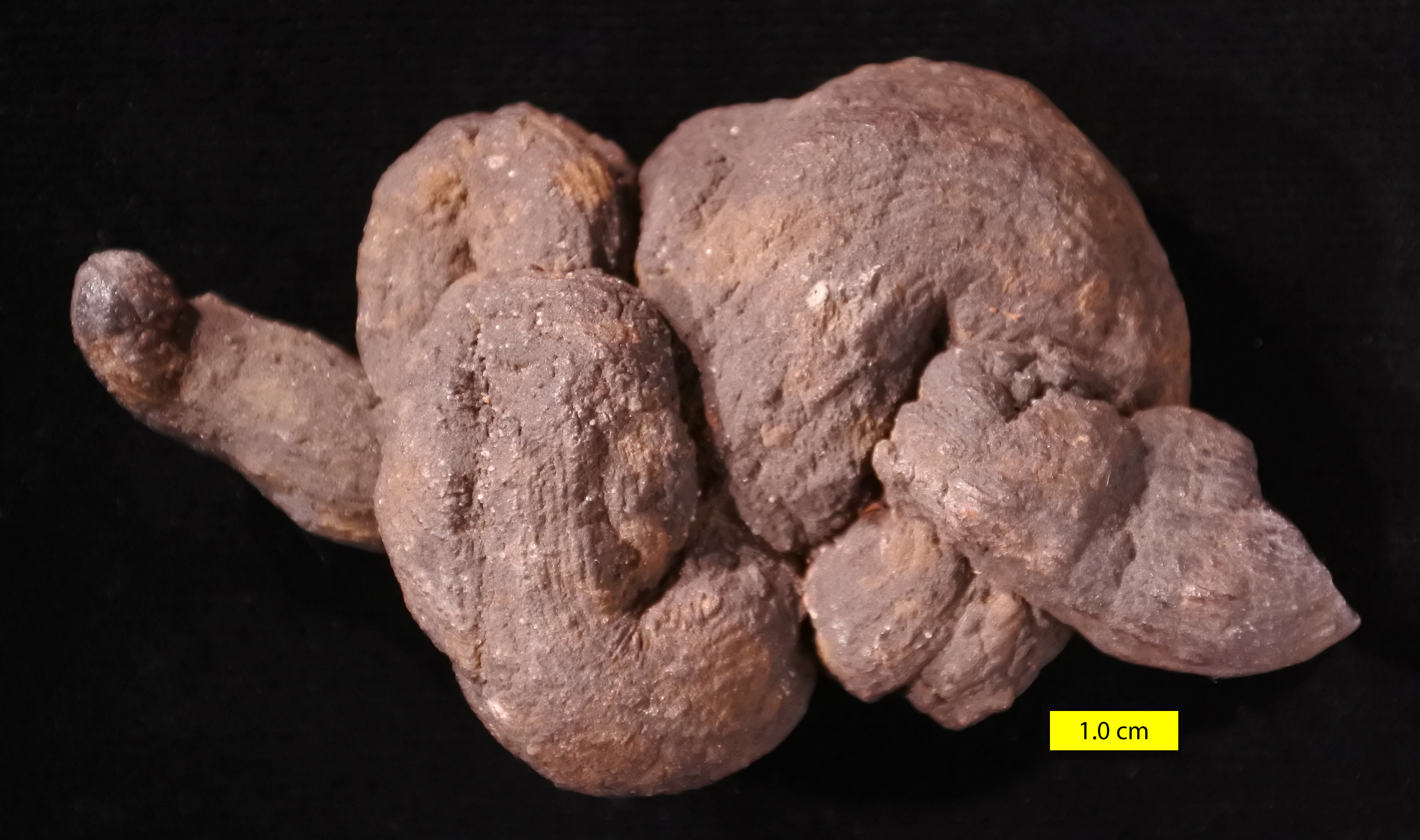 Pseudocoprolite from the Wilkes Formation (upper Miocene) of southwestern Washington.